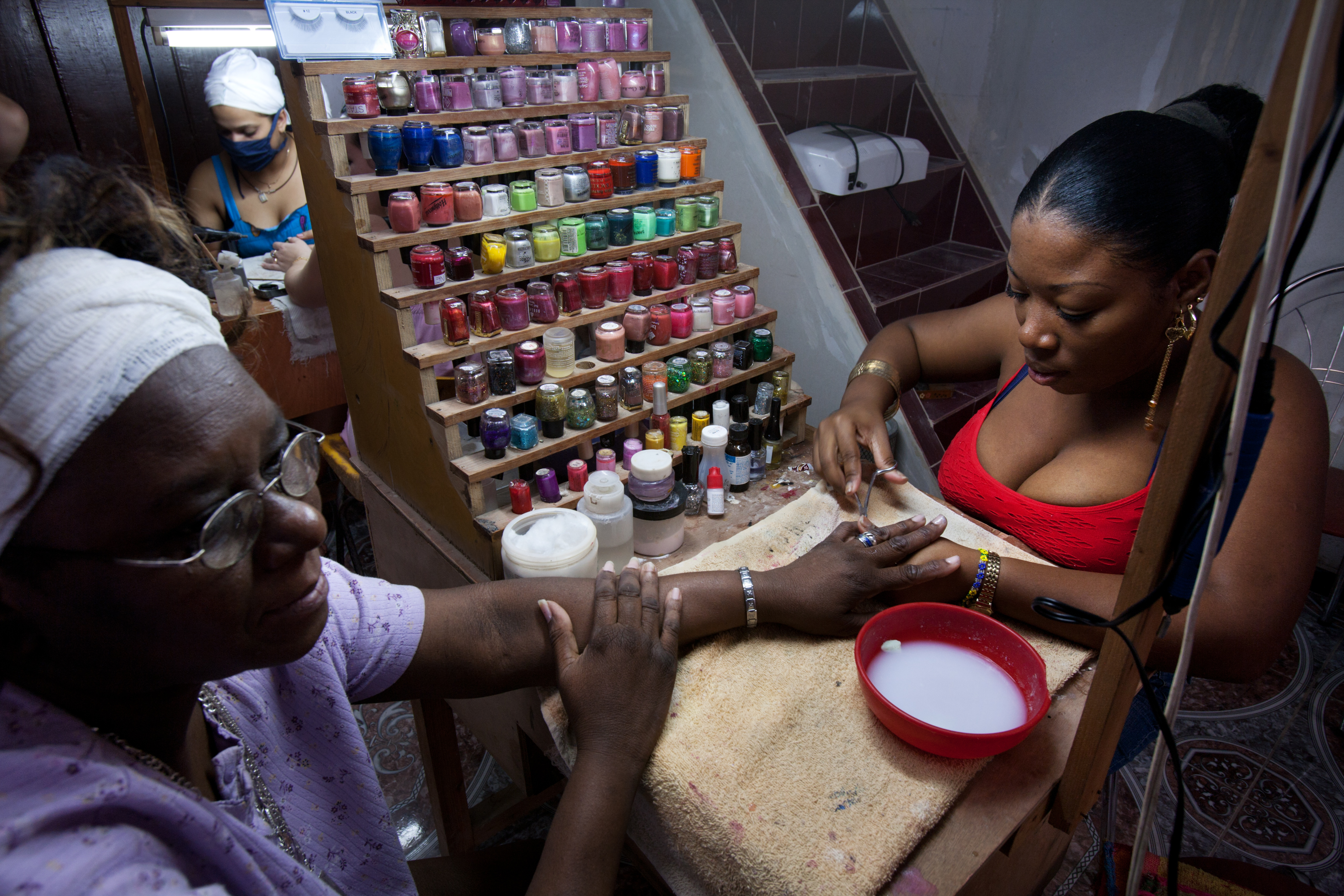 Beauty and nail polish salon. Havana (La Habana), Cuba